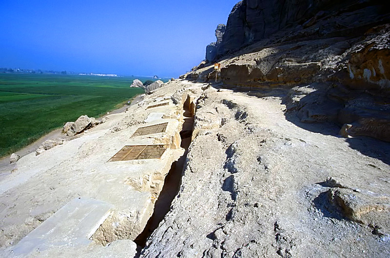 Fraser tombs, Egypt